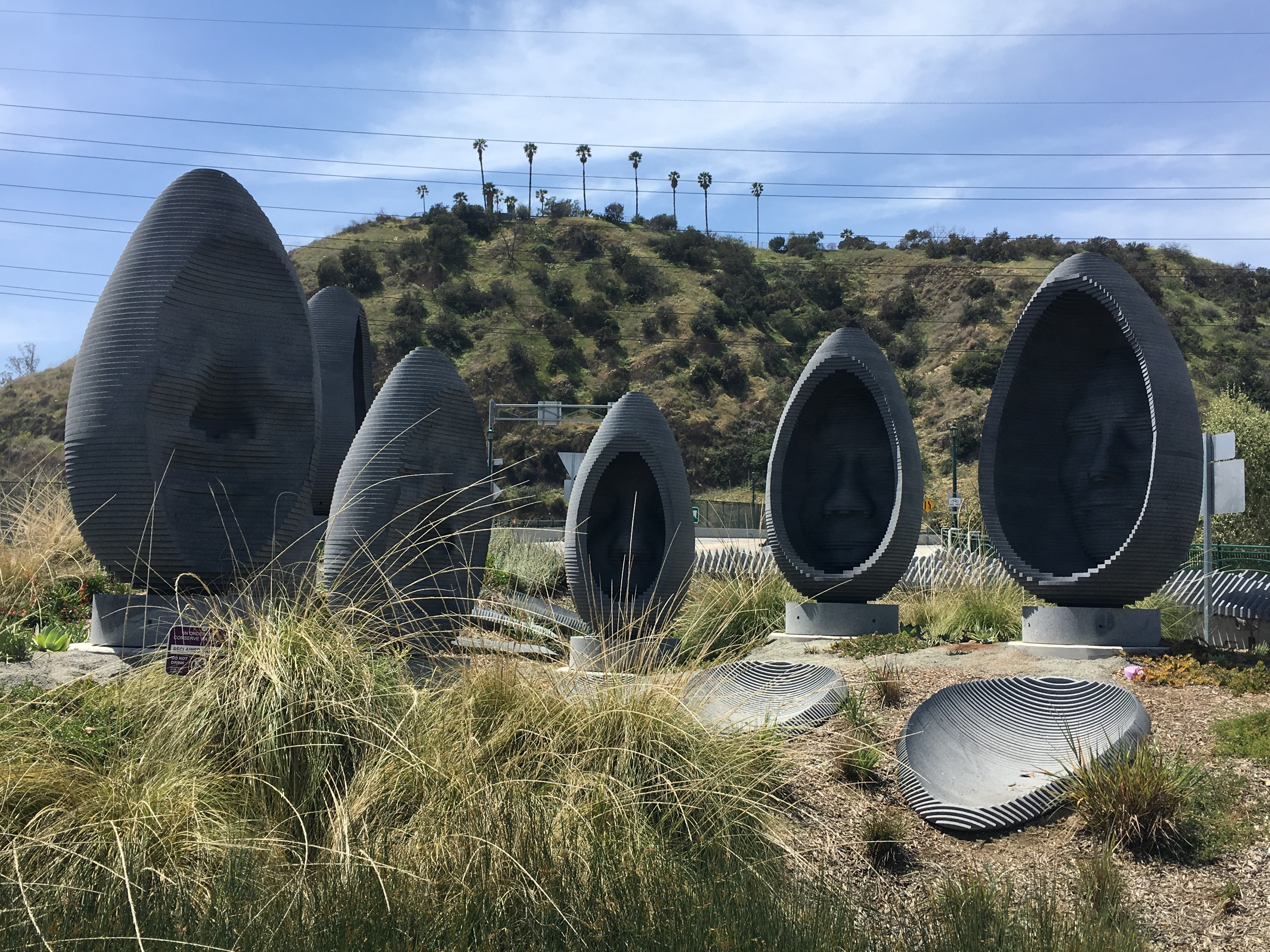 View of Elysian Park and the Cypress Park "Faces" from Cypress Park.